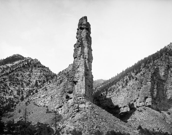 Image shows a general view of the spires of Castle Gate in Carbon County, Utah, 1912. Commercial photo taken on assignment for Utah Fuel Co., published ca. 1912